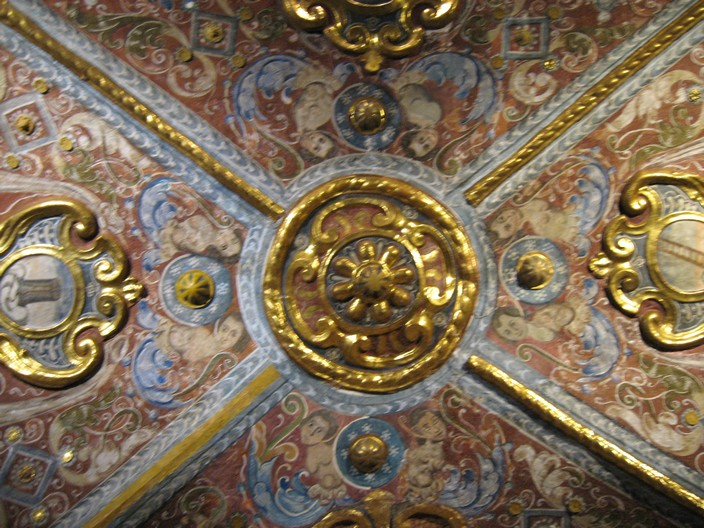 Qurikancha in Cusco